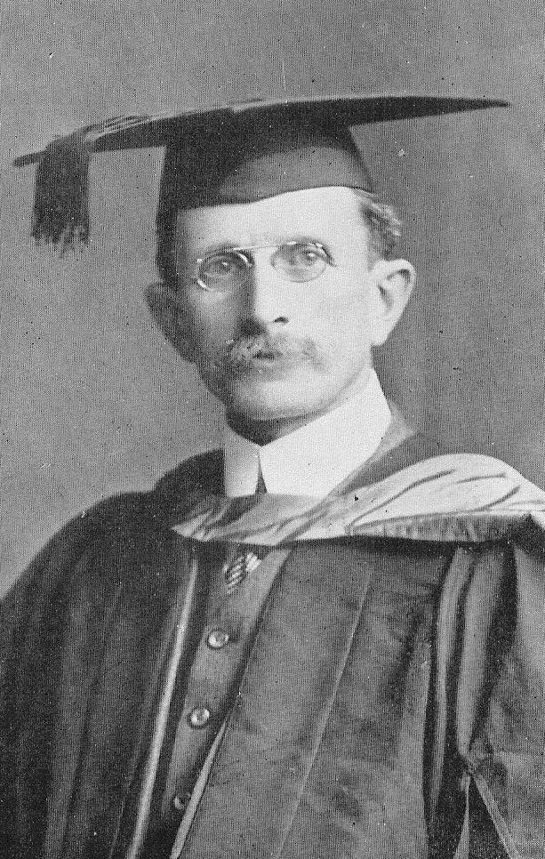 Photograph taken possibly in 1919, when Eifion Wyn was given an MA by the University of Bangor